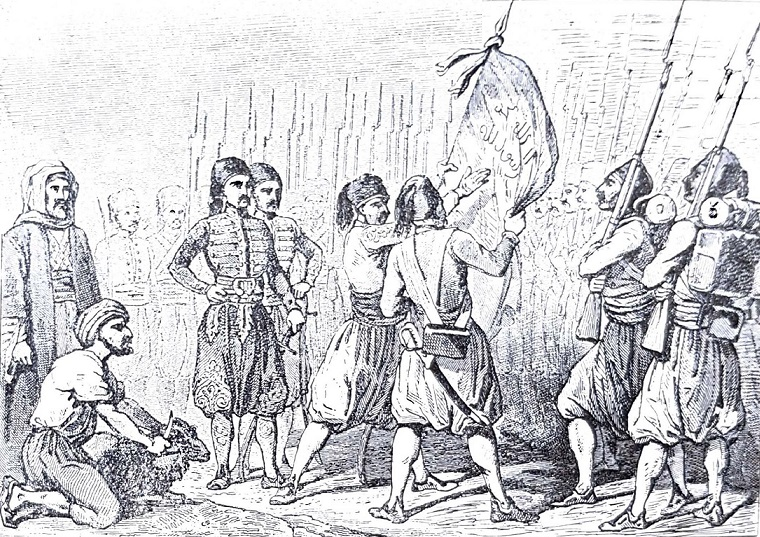 Egyptian Soldiers Swearing their ledge to Ibrahim Pasha, on the banner of Islam.